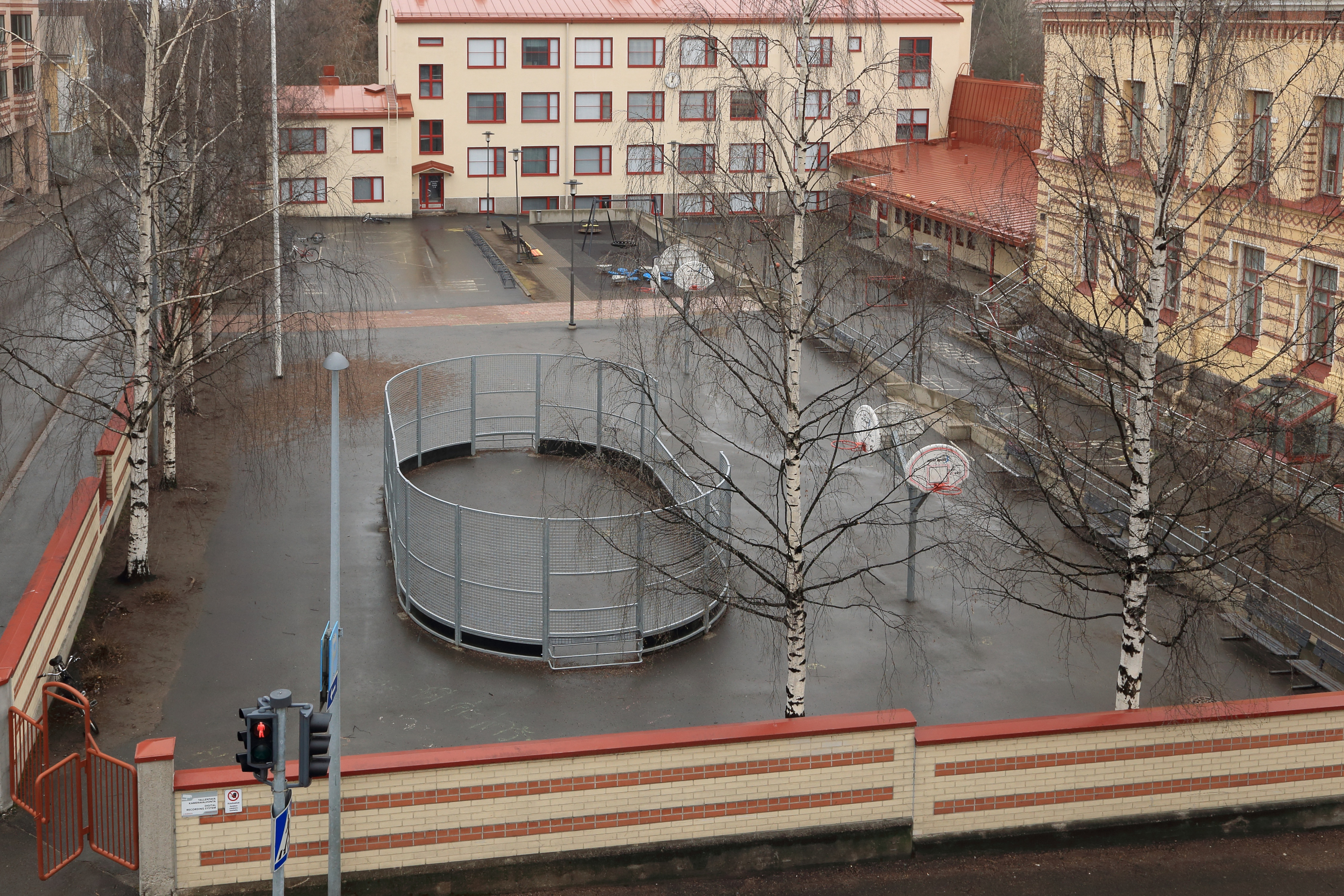 The schoolyard of the Myllytulli School in Oulu.